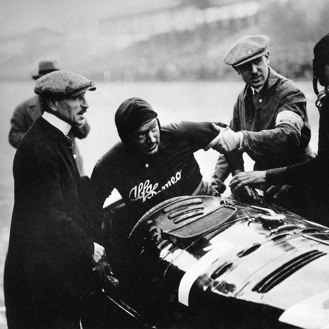 Alberto Ascari (WINNER) helped out of Alfa Romeo P2 by what looks like P2 designer Vittorio Jano (left, black dress) and another at 1924 GP Monza on 19 Ottobre 1924.